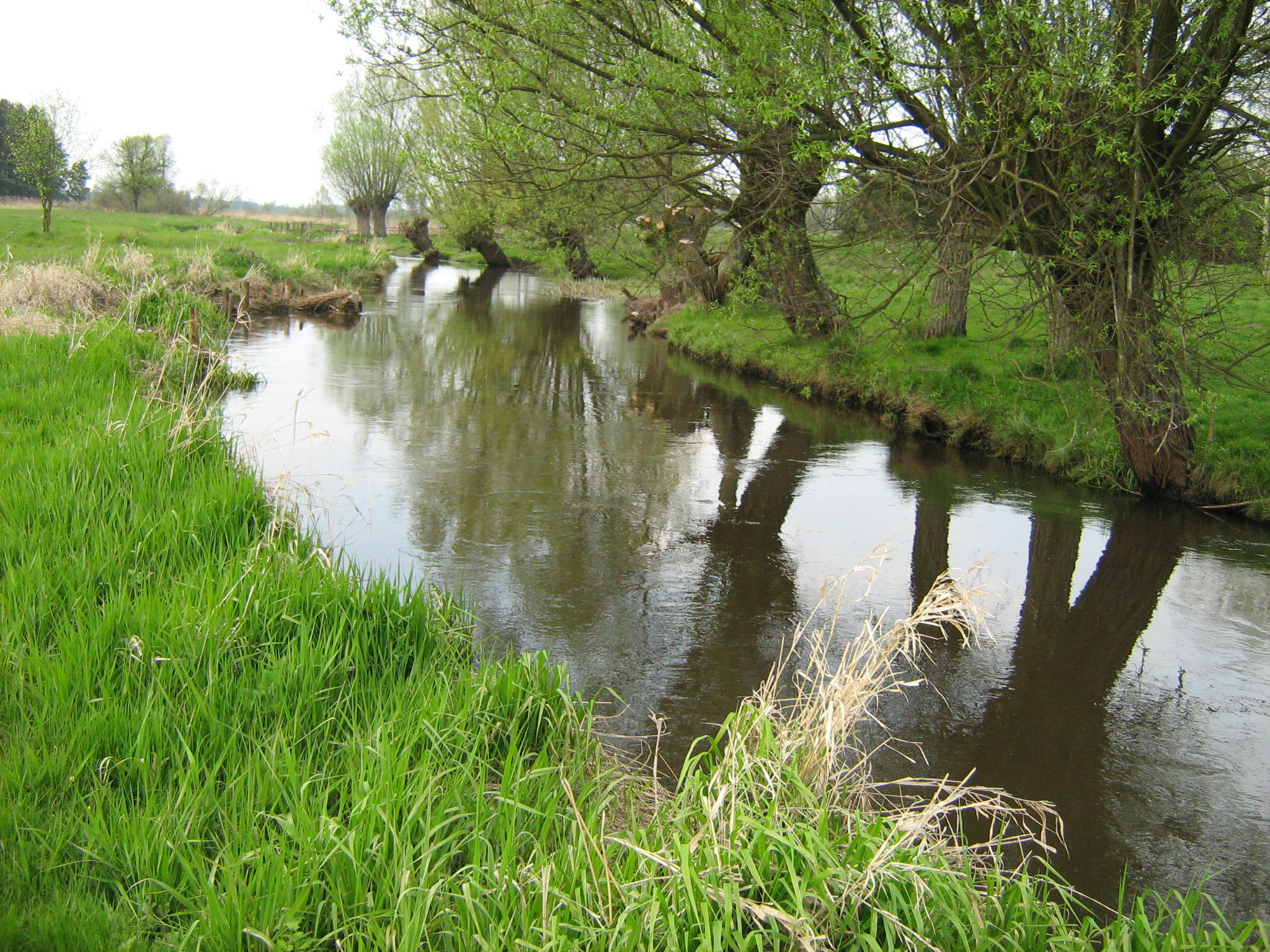 river Kostrzyń in village Kępa